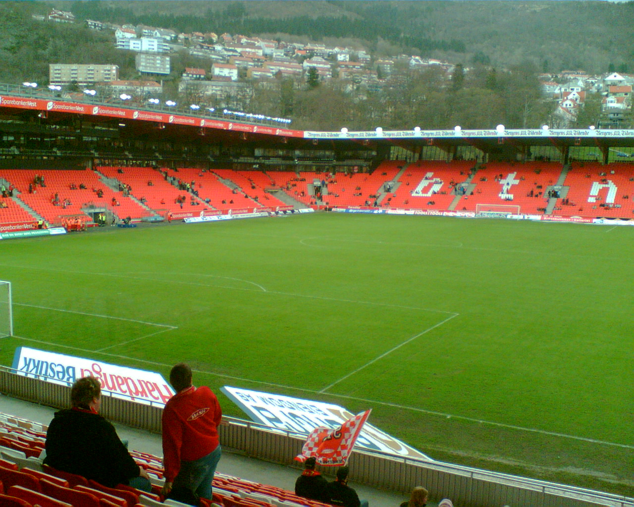 Brann stadion before the first home match against Strømsgodset in the 2007 season